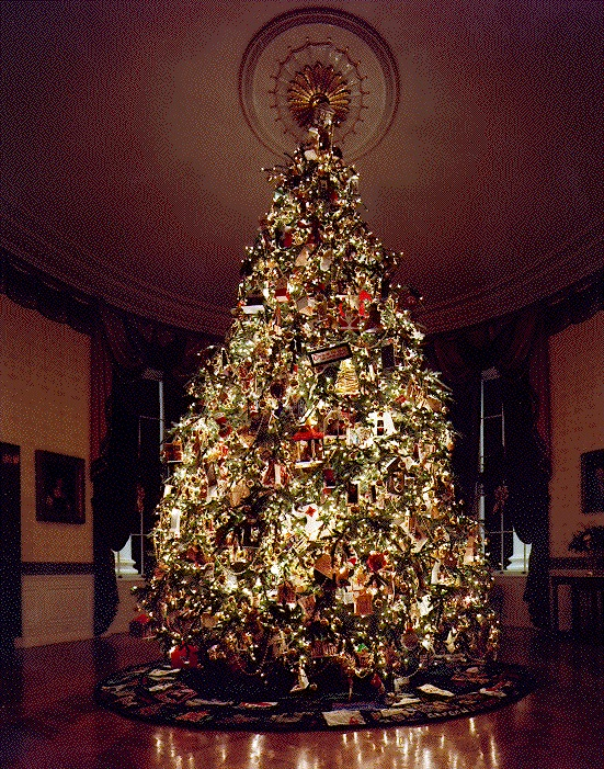 The 1995 official White House Christmas tree is seen on Saturday December 9, 1995 in the Blue Room. The tree was an 18-1/2 foot Fraser fir from Atwood Dollar Hudler Tree Farms near West Jefferson, North Carolina. It was presented to the President and Mrs. Clinton by Ronald Hudler and Daniel Dollar who won the honor by being named 1995 National Grand Champion Growers by the National Christmas Tree Association. The tree is decorated by the American Institute of Architects and architecture students whose ornaments were inspired by the lines, "'Twas the night before Christmas, and all through the house..." Chimneys, windows, rooftops, shutters, and porches - all bedecked for the holidays - can be seen on the tree.